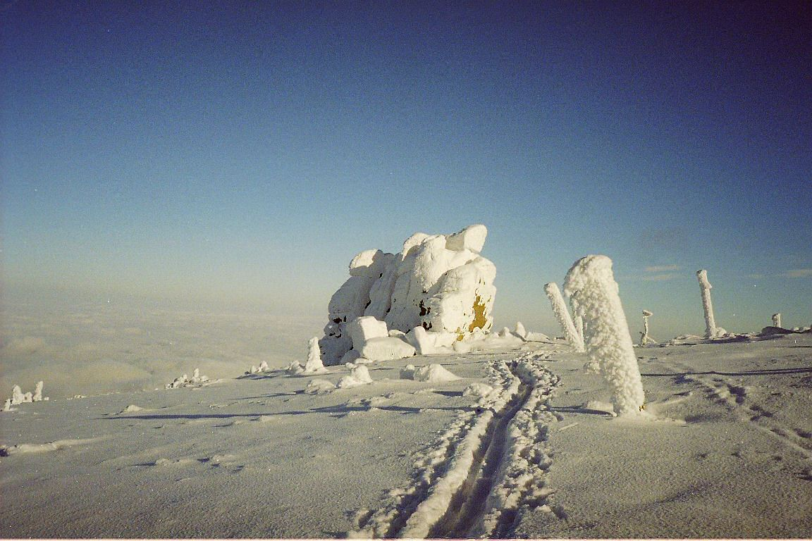 Słonecznik, Karkonosze, Poland.